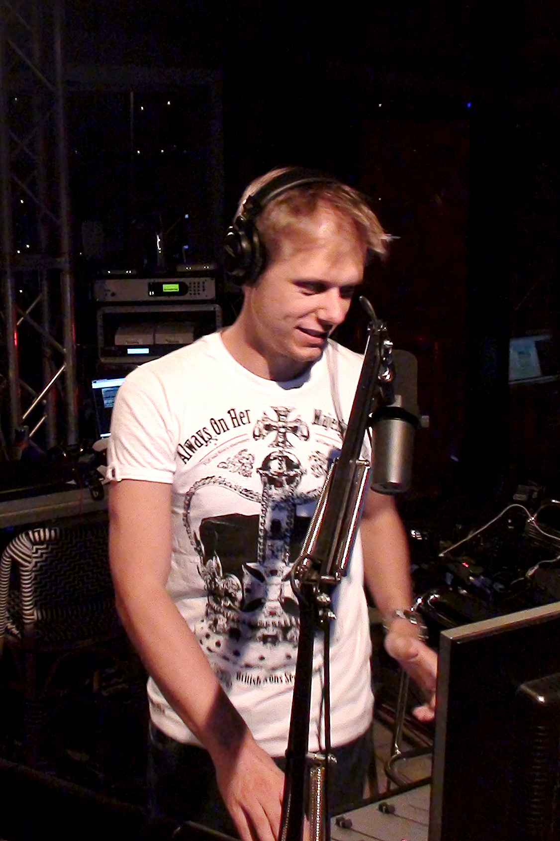 Armin van Buuren broadcasts the milestone 500th episode of his A State of Trance show at the official pre-party, live from Club Trinity in Cape Town on 17 March 2011.